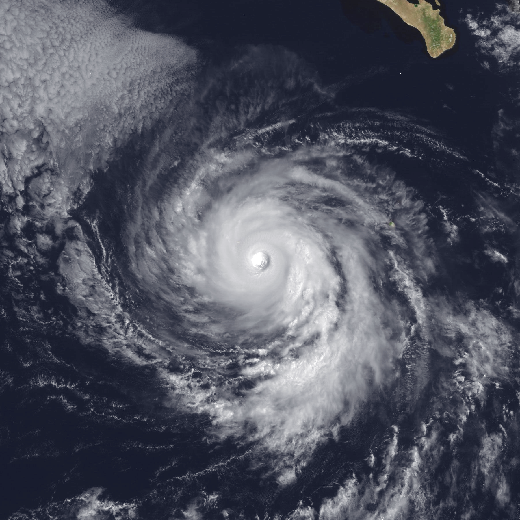 Hurricane Juliette at peak intensity southwest of the Baja Peninsula on September 20, 1995